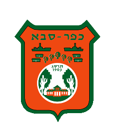 Coat of Arms of the city of Kfar Saba, Israel.